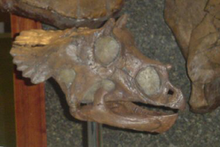 Picture of the skull of a juvenile Triceratops (UCMP 154452) mounted in the atrium of the library in the Valley Life Sciences Building at the University of California, Berkeley. It is mounted next to an adult skull, part of which can be seen above the juvenile. The skull is a polyester cast modeled after a real fossil found in Montana in the United States. The frill and back of the skull are known, but everything in front of the eye socket is speculative. I took this picture in June of 2006 and release all rights.